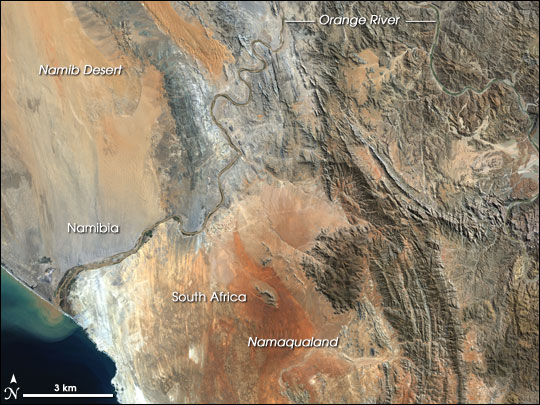 Satellite image of the Orange River as it flows into the Atlantic Ocean.